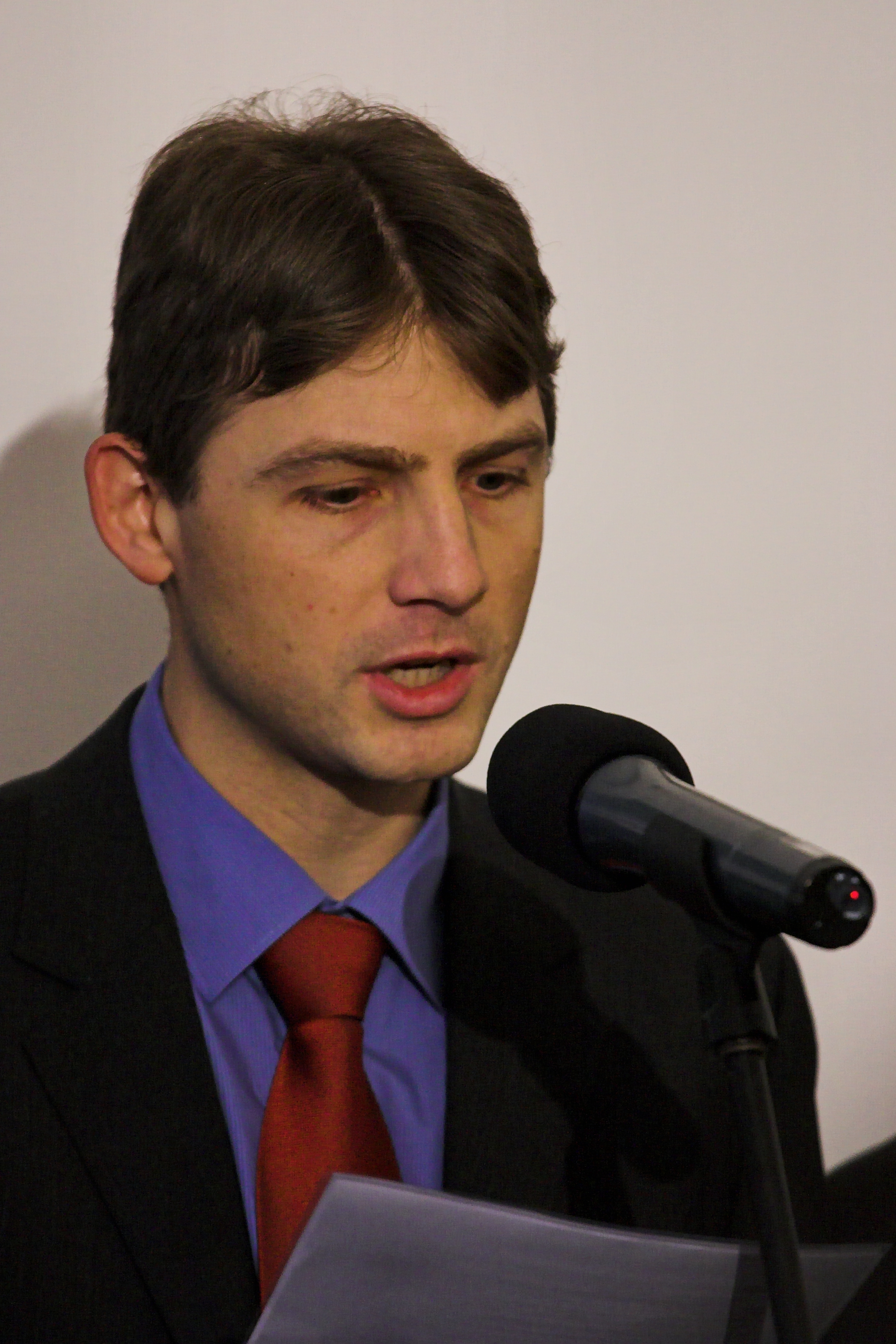 'Petr Mach at first press conference of the Strana svobodných občanů, January 2009, Prague, Czech Republic.